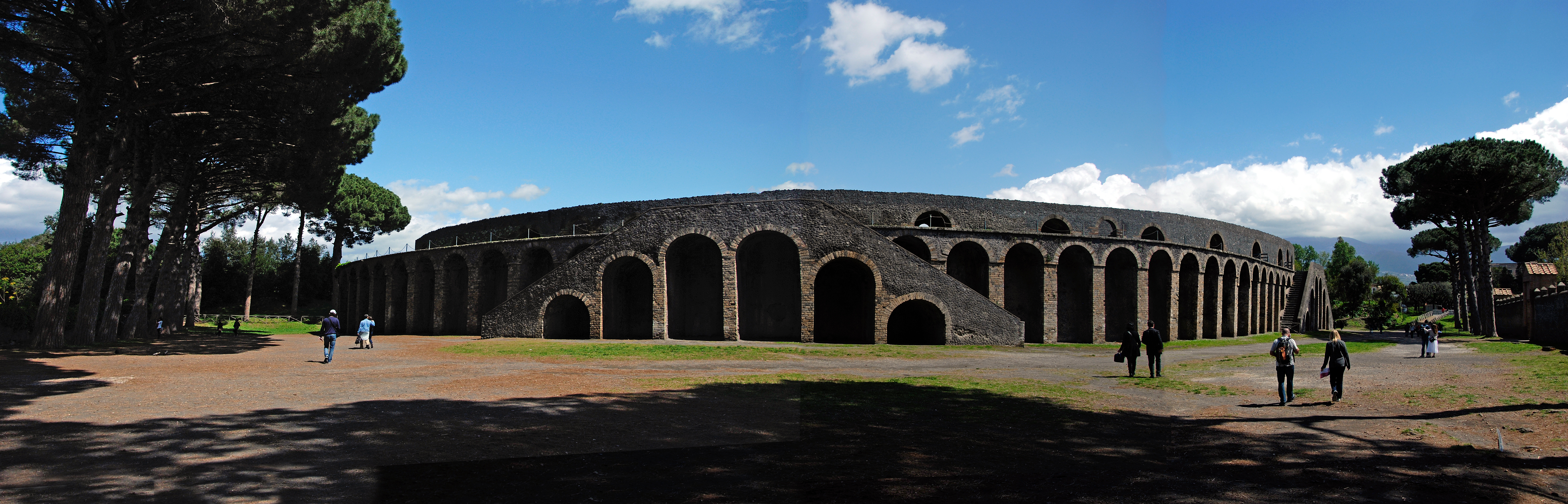 Exterior of the roman Pompeii theatre